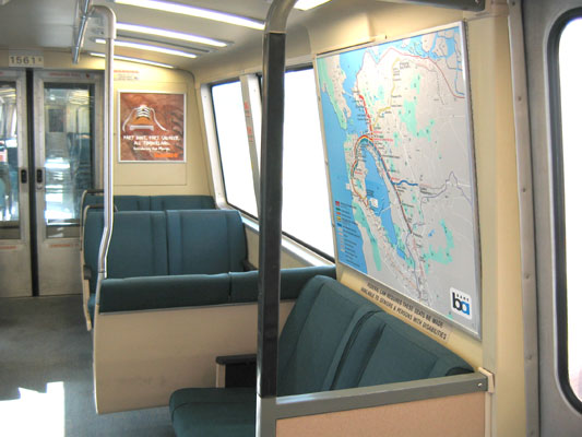 BART (San Francisco Metro), Interior view of B.A.R.T. car 1561. Access to neighboring car is seen on left, exit door to the right. Side-facing seat is for riders with mobility issues. Advertising poster in the background, system map on the right